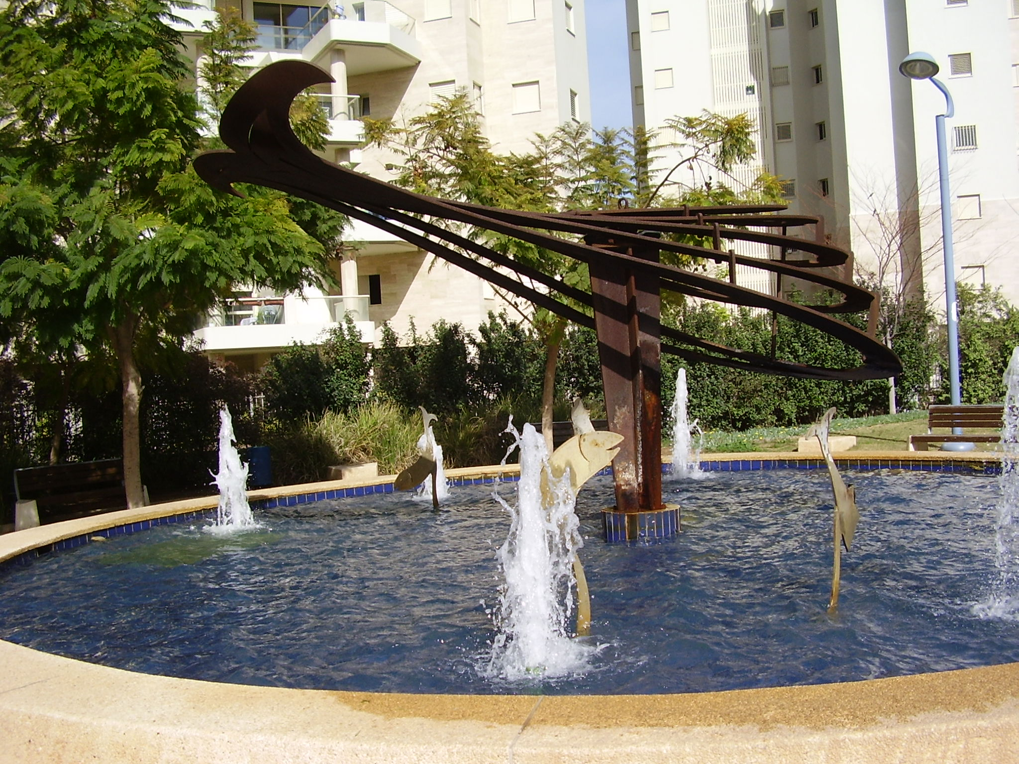 Little fish Kaspion story garden in Holon